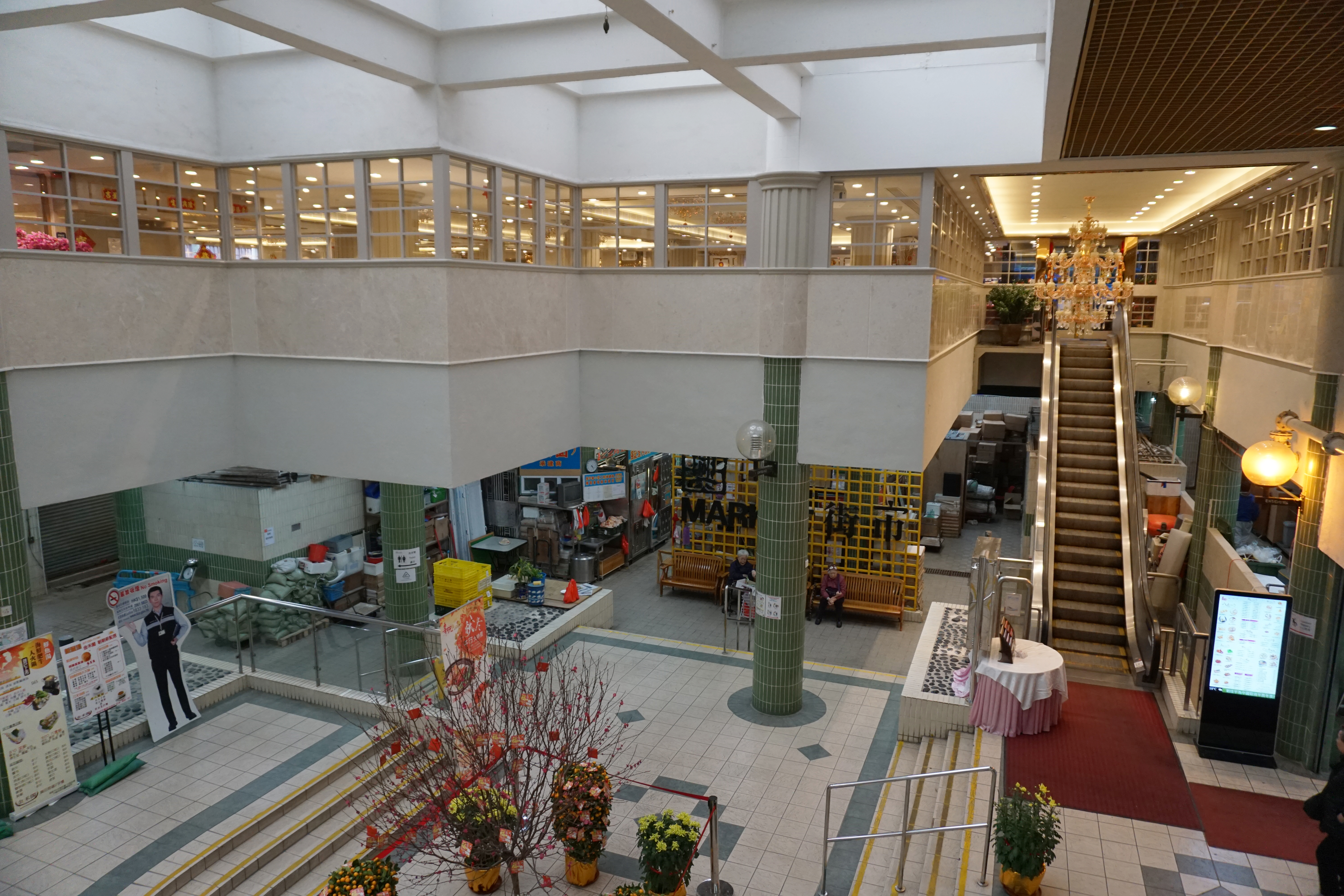 Hing Tin Estate in Lam Tin, Hong Kong.